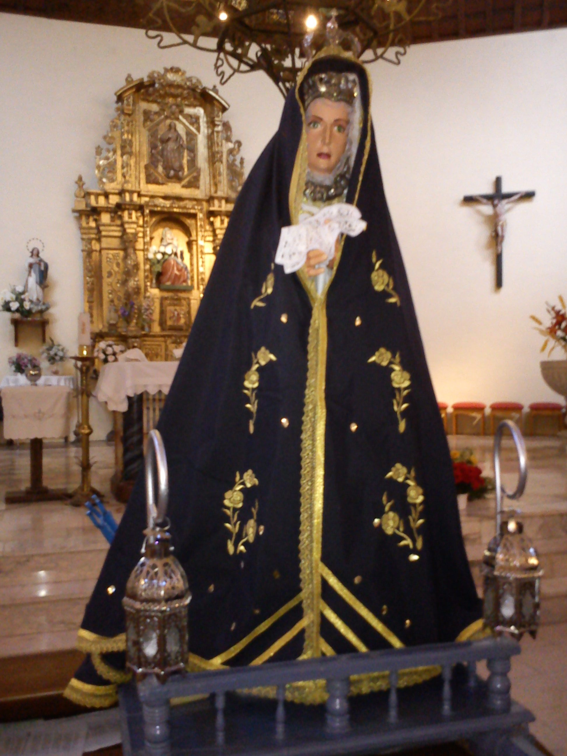 Dolorosa